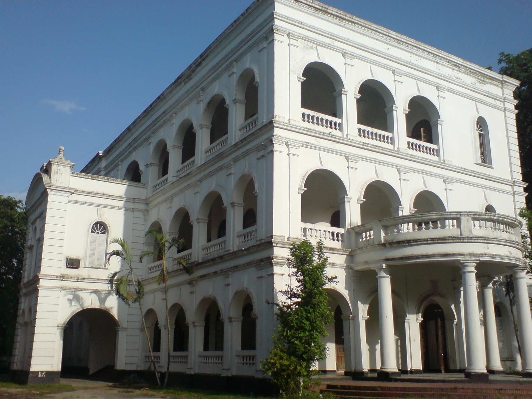 The Bangla Academy building, Dhaka, Bangladesh. Previously it's name was Bardhaman House.